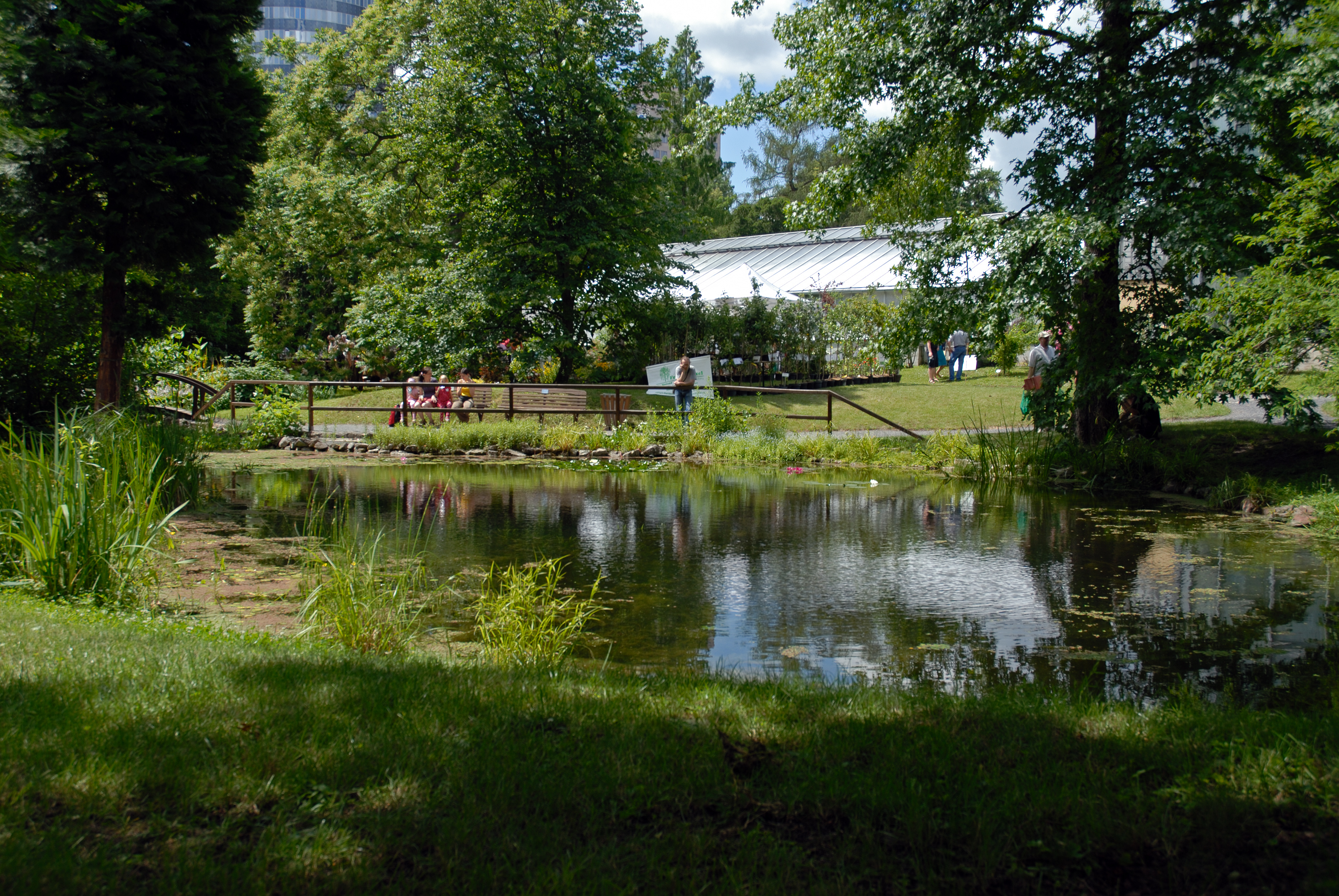 This image shows the botanical garden in Jena.